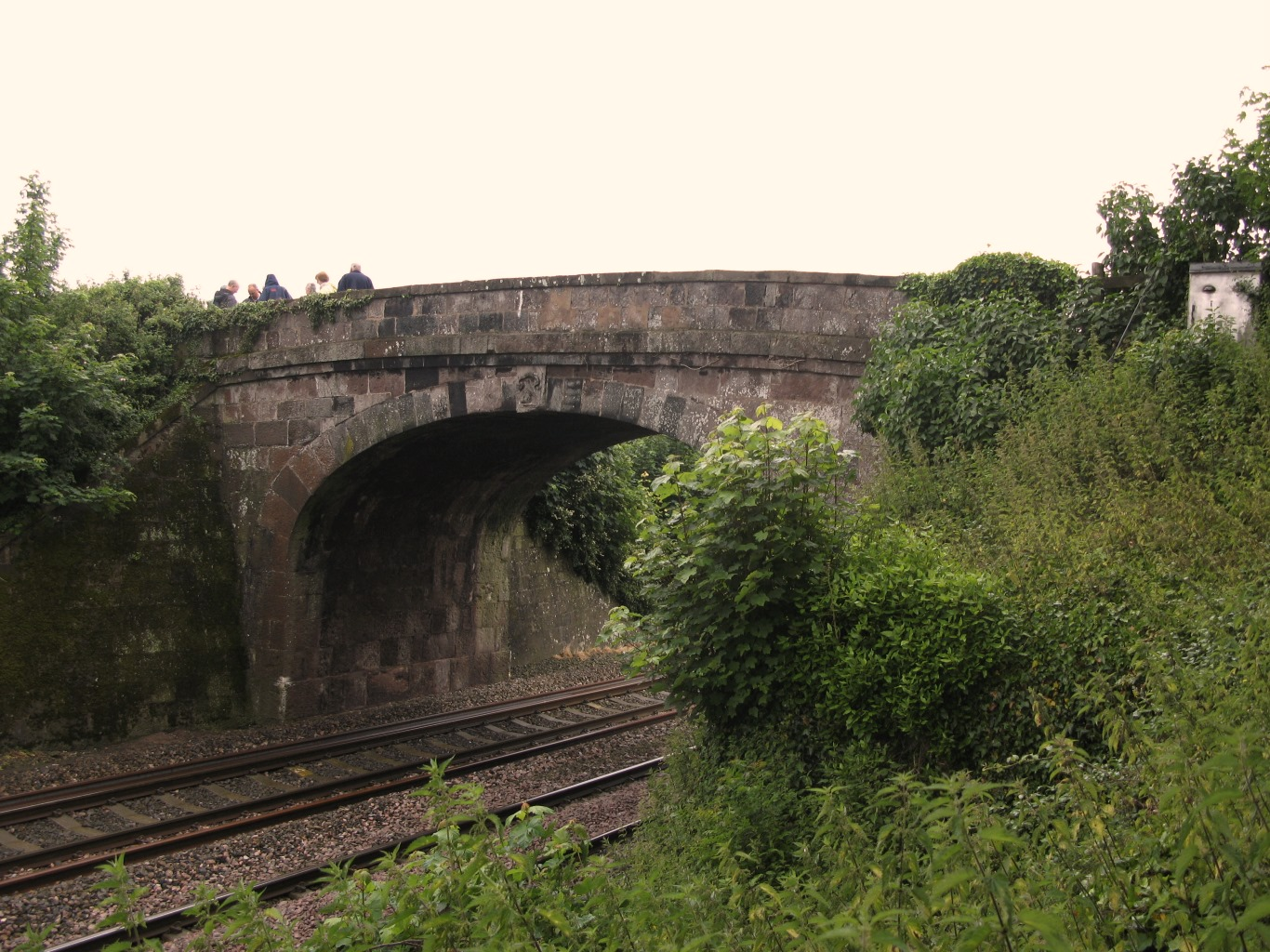 The bridge over the old Bristol and Exeter Railway at the site of the former Silverton station in Devon, England. View looking southwards.